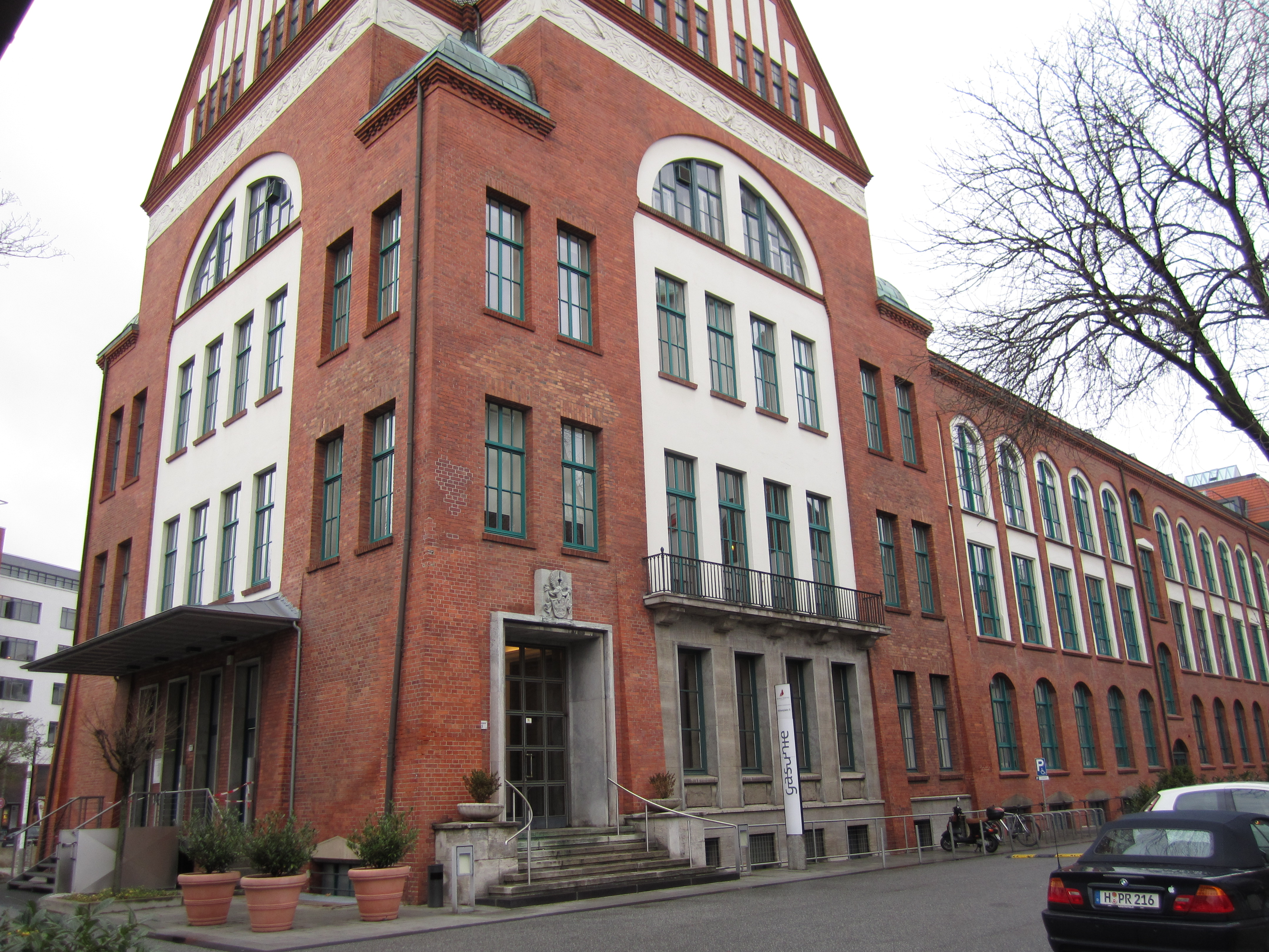 Office building Pelikanplatz 5, Hanover, Germany.